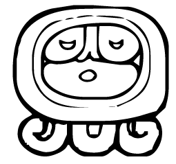 Maya:glyph:logogram:calendric:Tzolkin:Day20:Ajaw:std+suffix:v01. Img created by CJLL Wright.